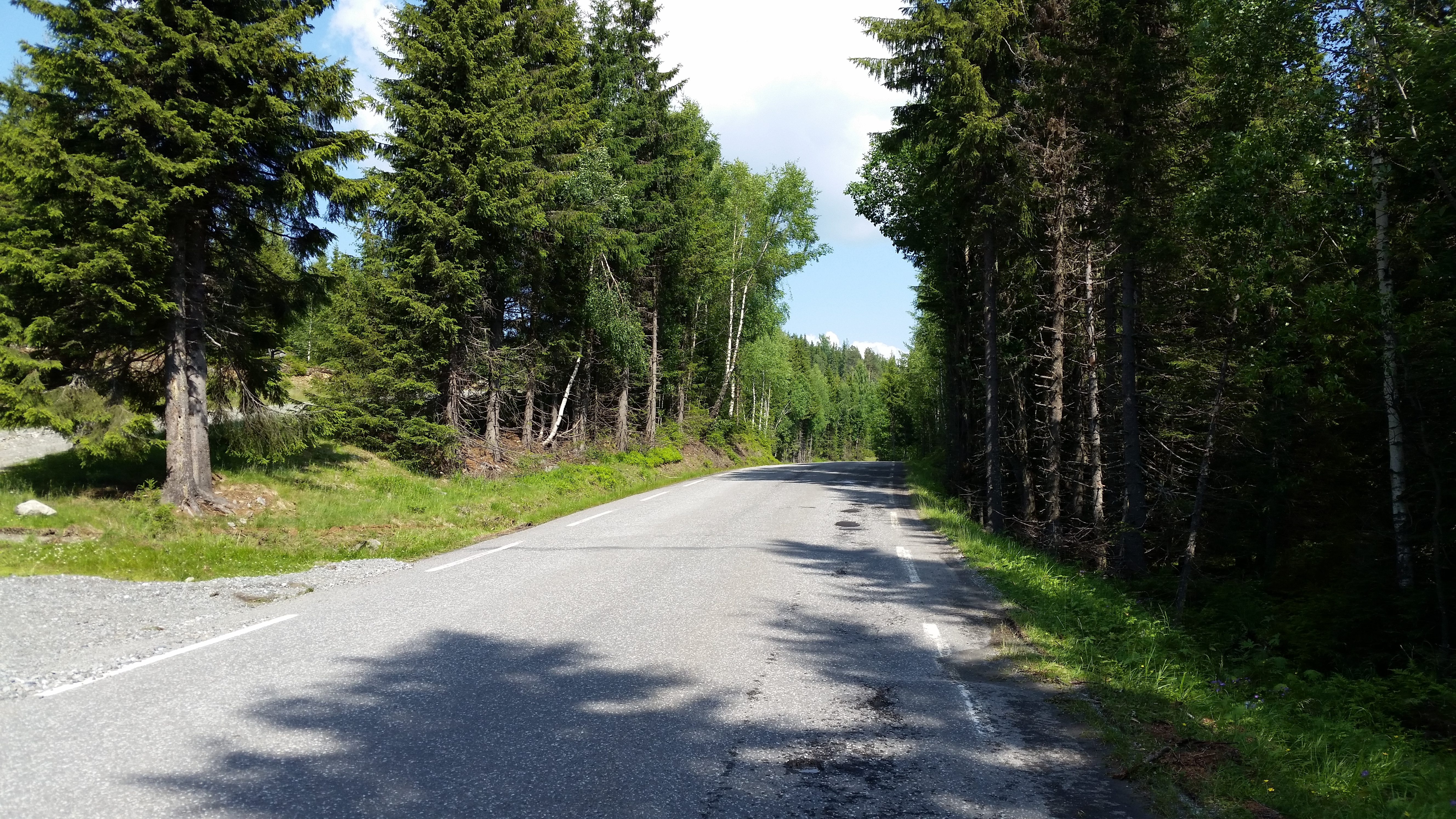 County road 2520, Nordsetervegen in Lillehammer, Oppland county, Norway